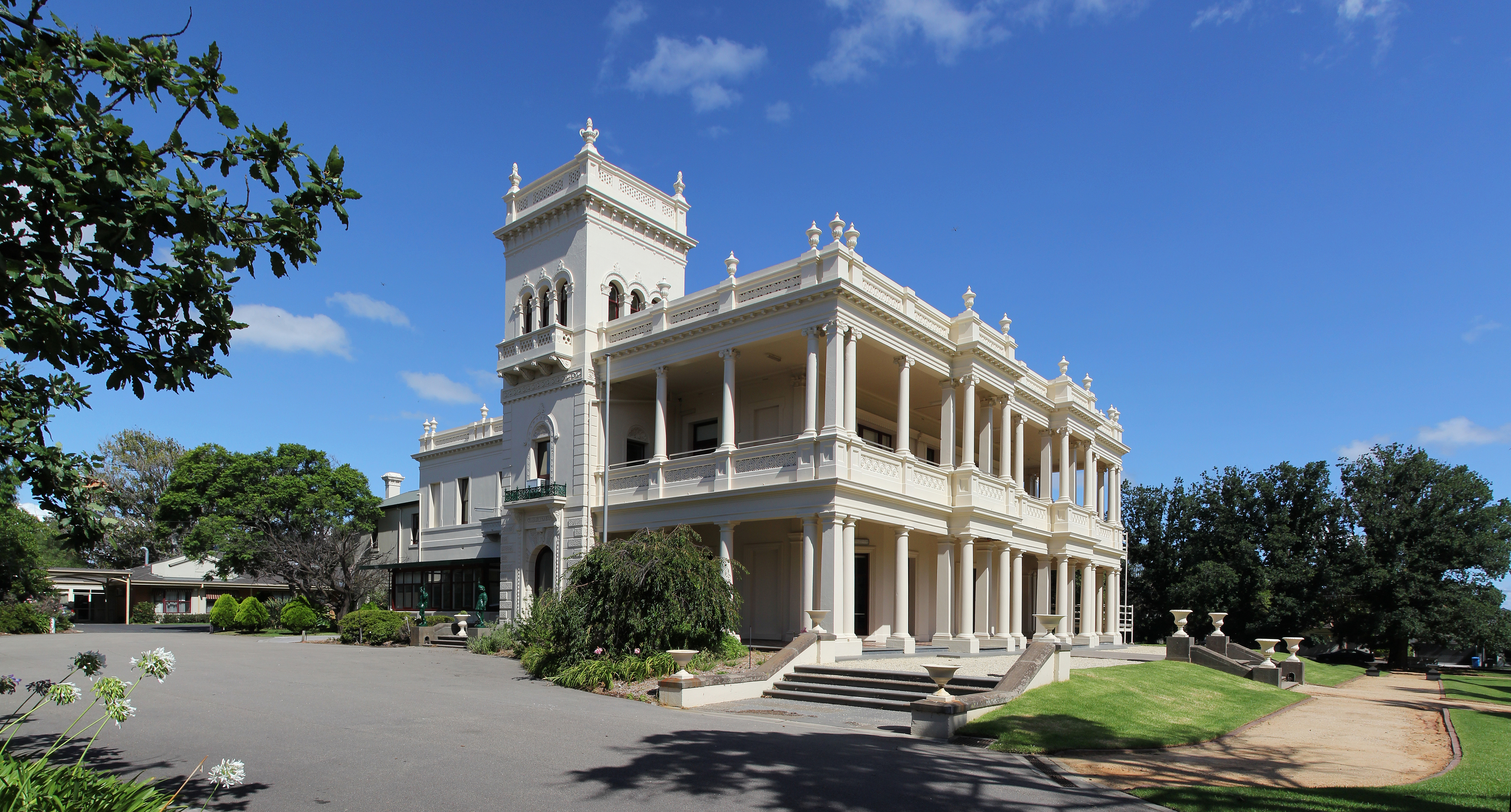 Kamesburgh (Built 1874) in North Road, Brighton, Victoria